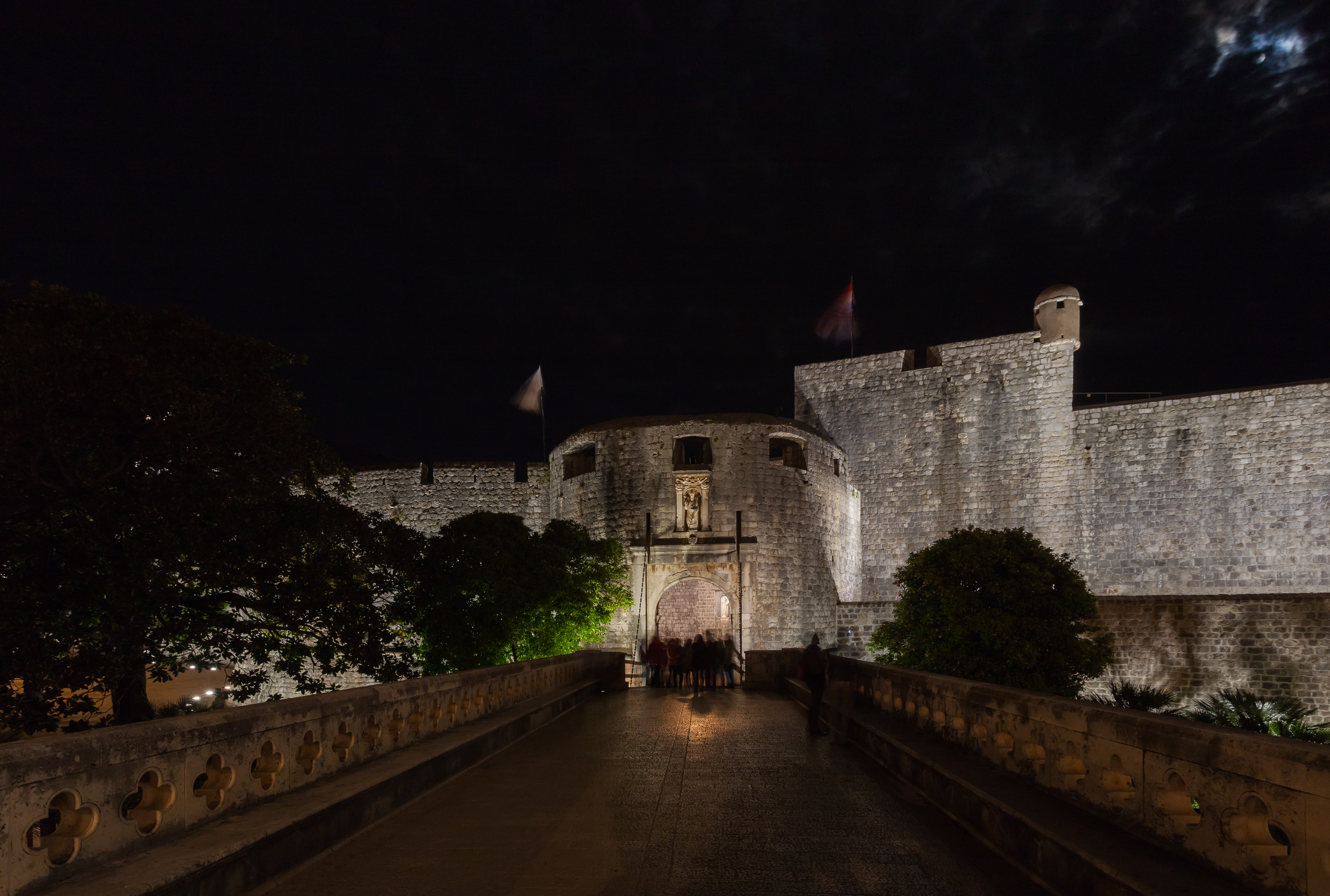 Old city of Dubrovnik, Croatia